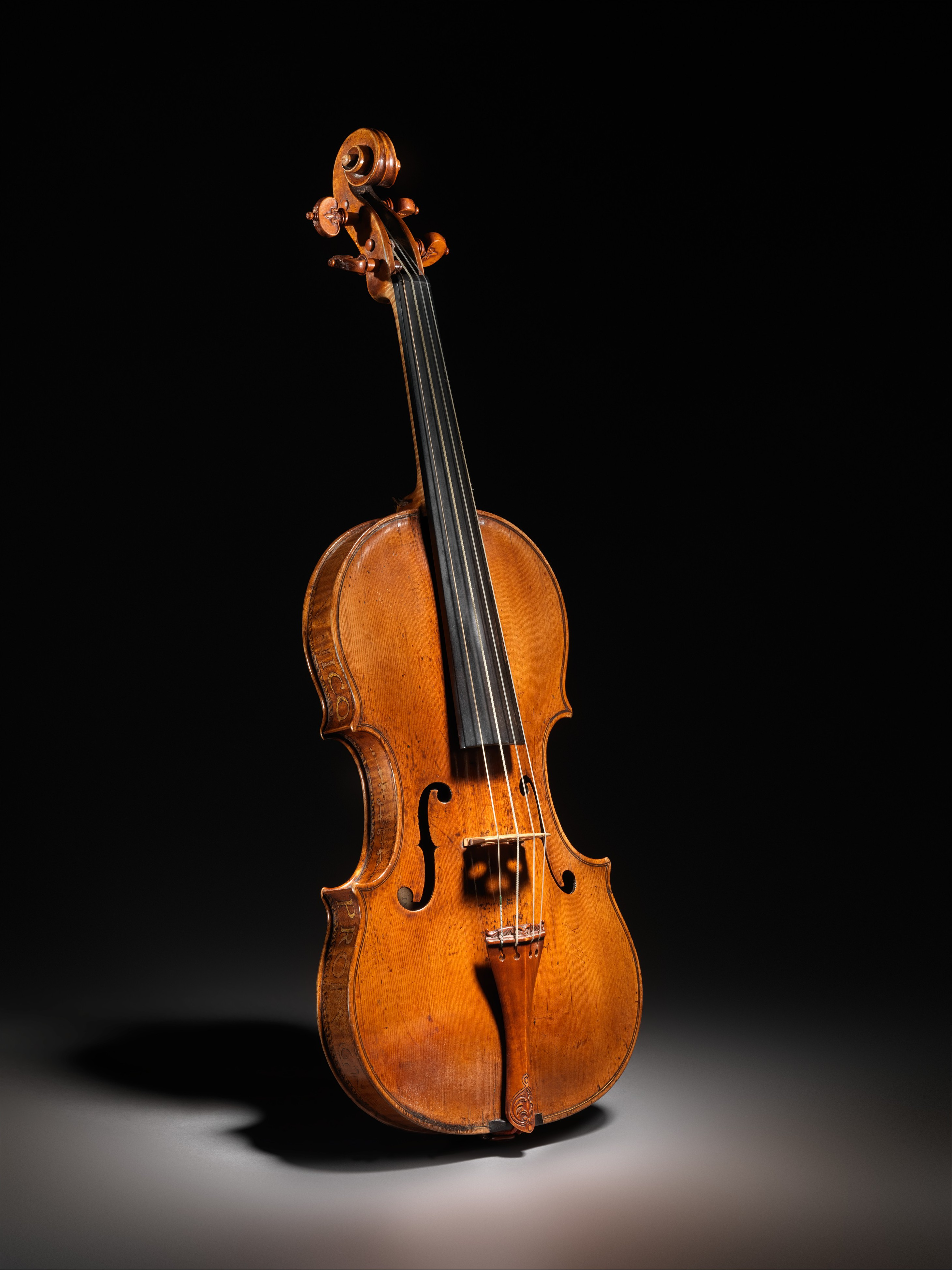 Italian (Cremona); Violin; Chordophone-Lute-plucked